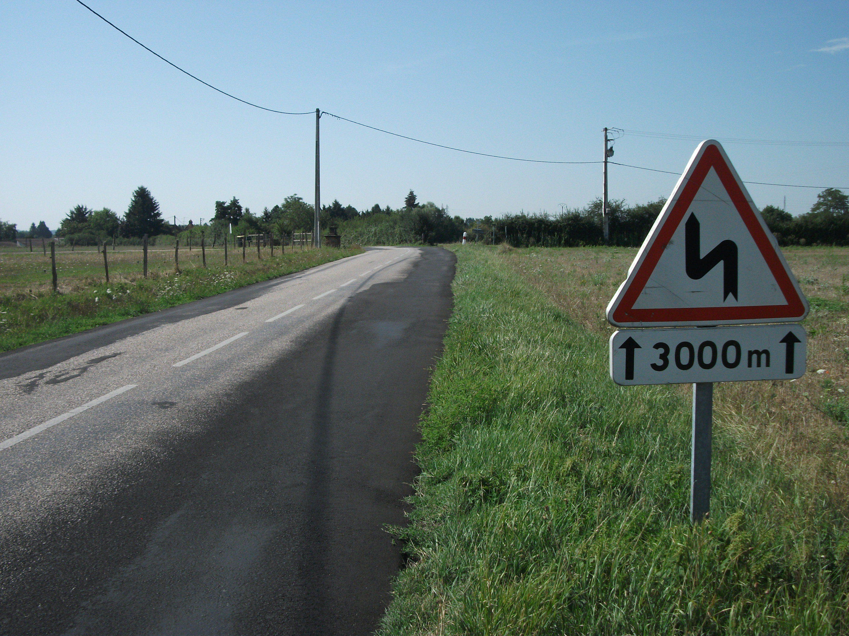 Sign announcing successive bends on 3000 meters - Departmental road 142 near Saint-Rémy-en-Rollat [8603]